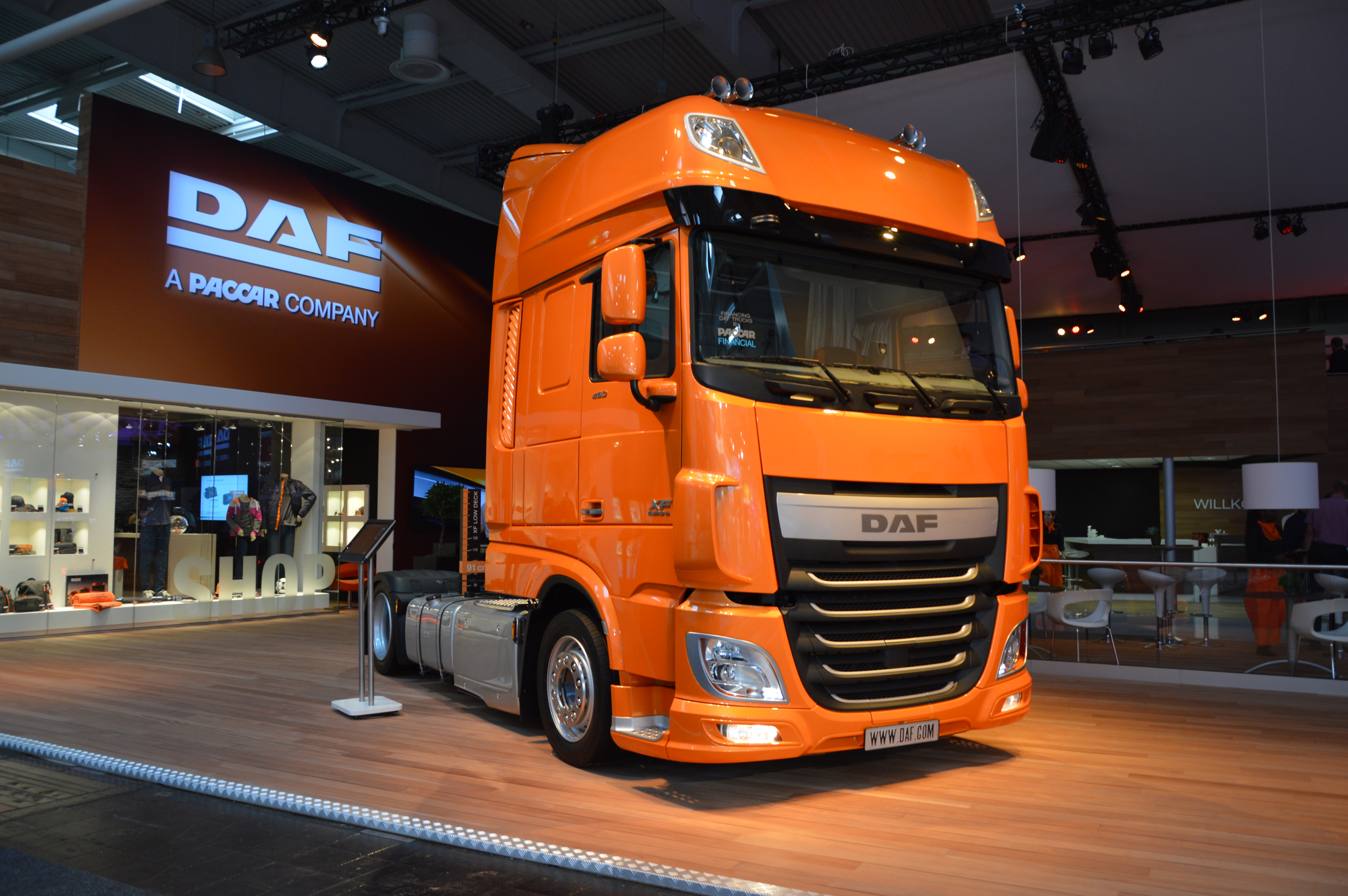 DAF truck XF 460 FT low deck. Photo taken at IAA 2016.